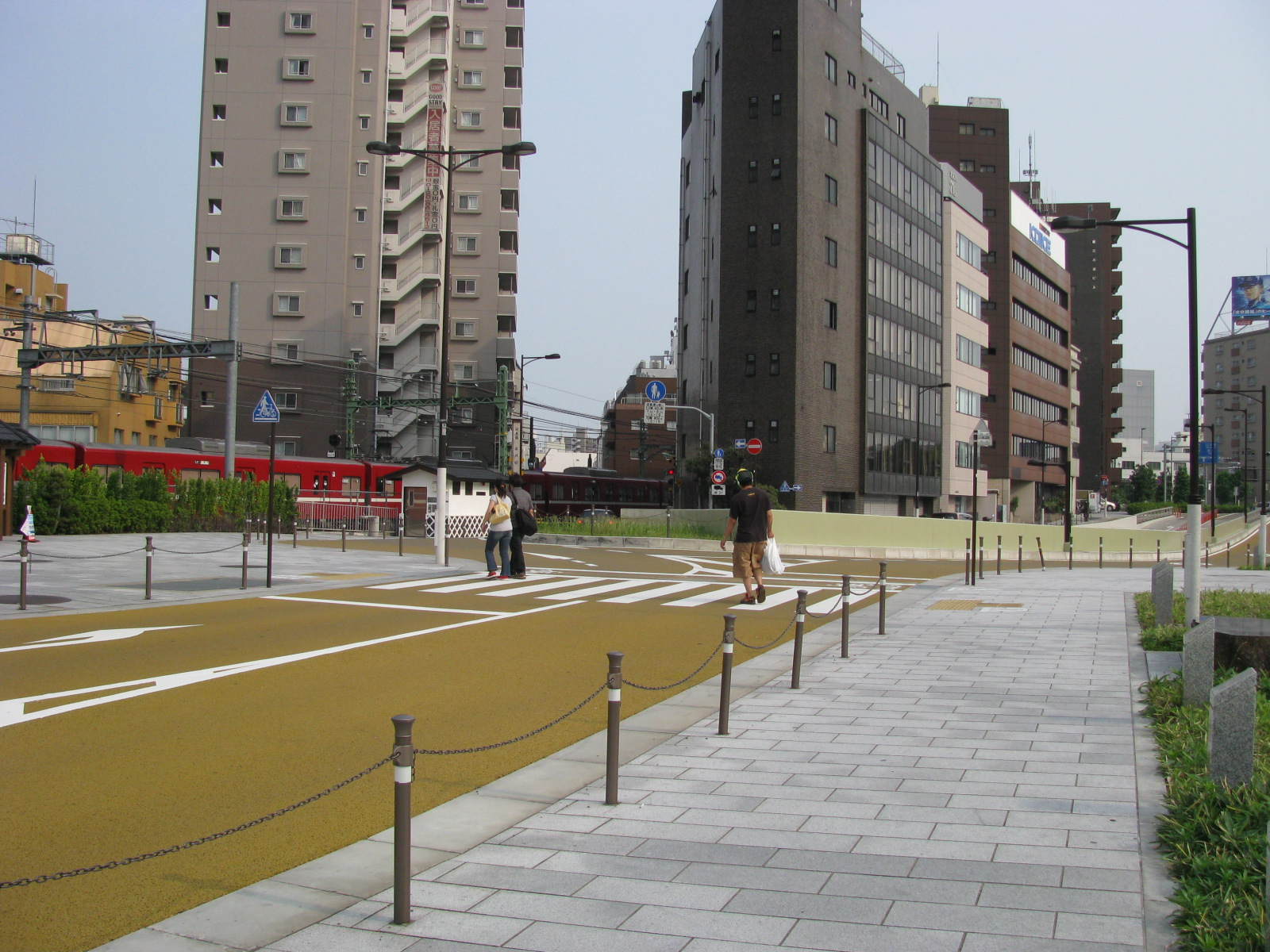 The Daiichi Keihin is a street name, from Shinbashi to Kanagawa of National Route 15. National Route 15 is old National Route 1 and old Tokaido. This located is in Shinagawa, Tokyo, Japan.